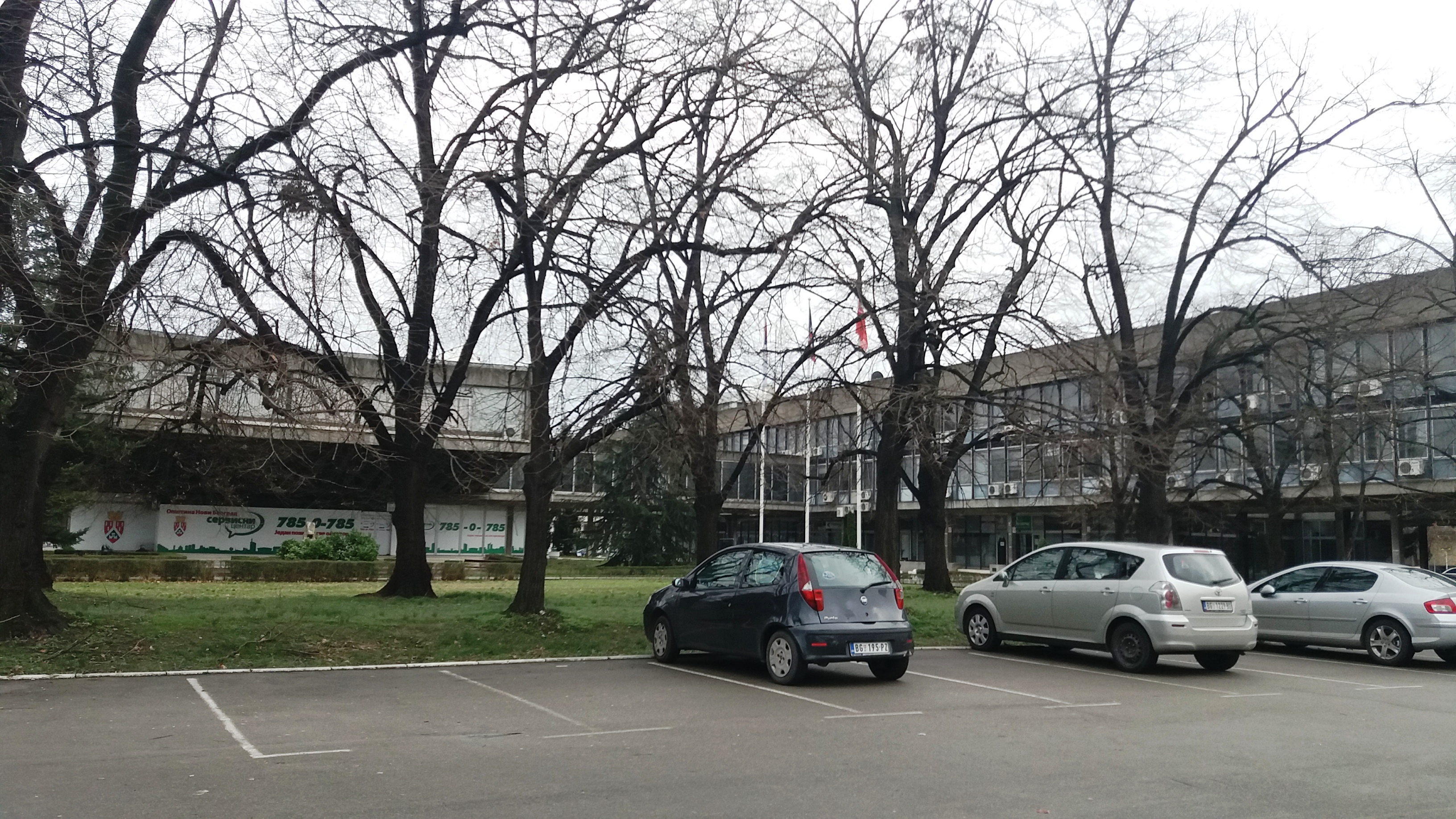 Block 31, New Belgrade, Municipality New Belgrade